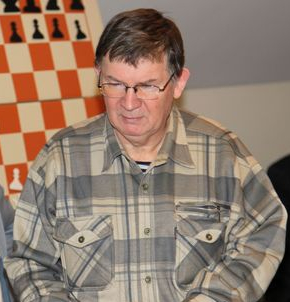 Nikolai Mishuchkov (chess player)